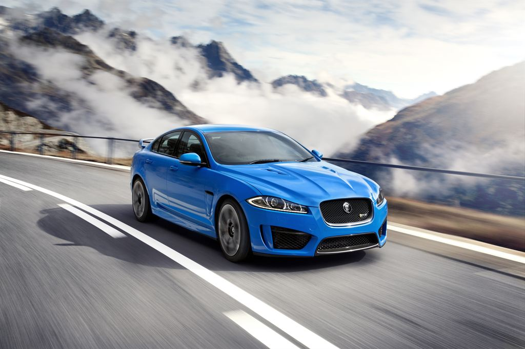 The XFR-S incorporates engineering features from both the XKR-S and the all-new F-TYPE two-seater sports car to create the most driver-focused, agile and responsive iteration of Jaguar’s award-winning XF saloon range. The XFR-S has been developed by Jaguar Land Rover’s specialist ETO division – its bespoke powertrain, chassis and body enhancements enabling it to push the performance boundaries.